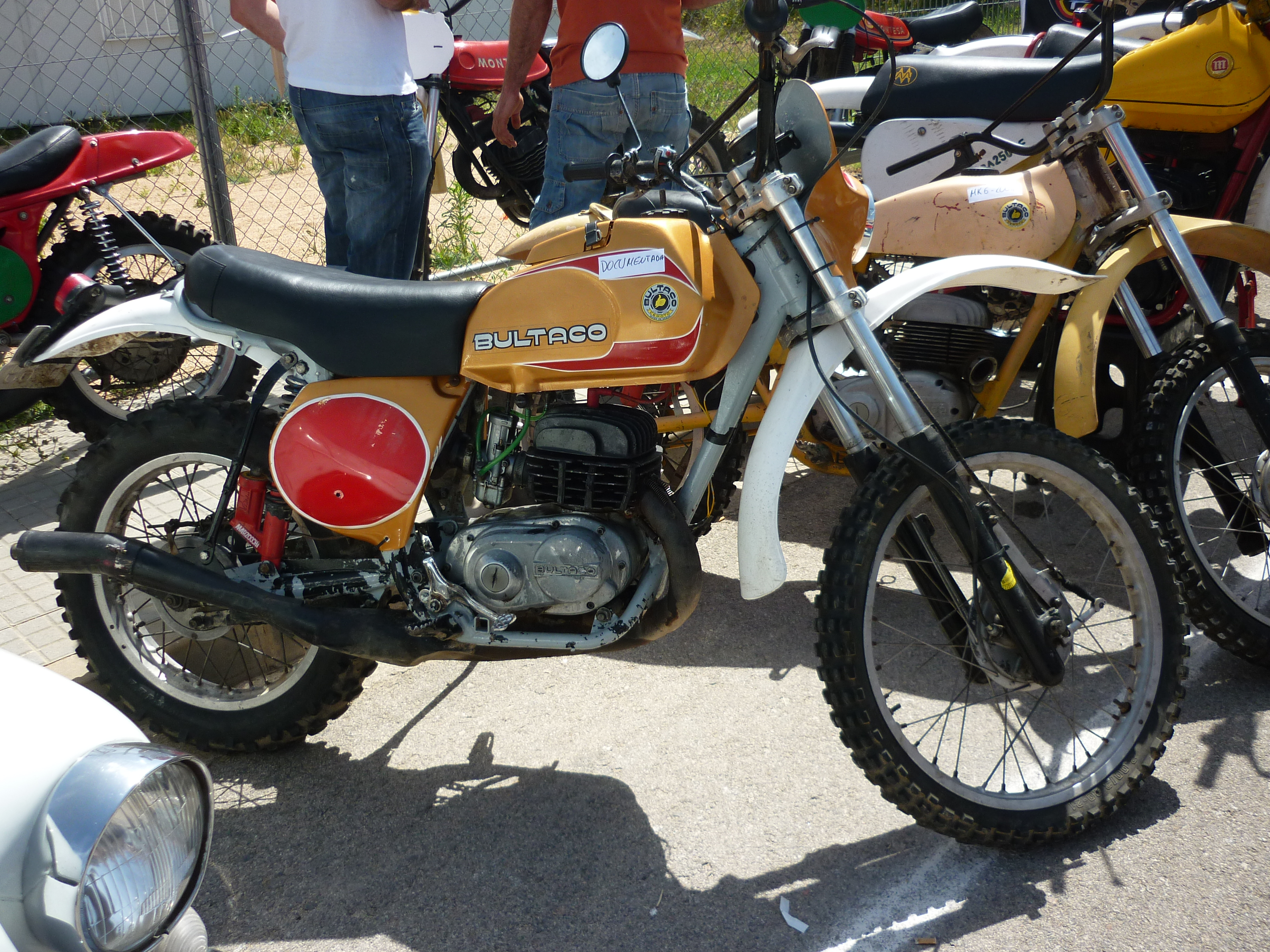 Forefront: Bultaco Frontera Gold Medal 250, 1977